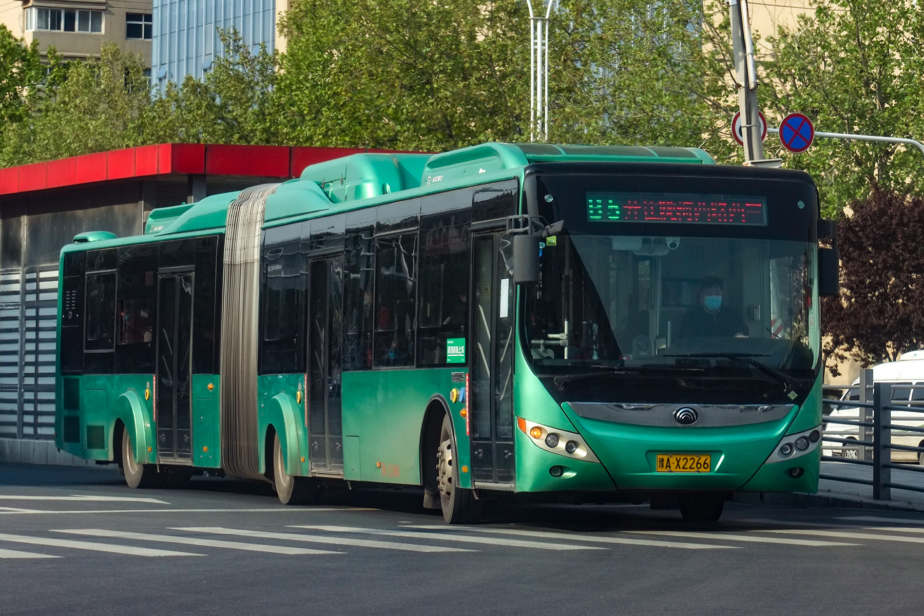 Zhengzhou BRT Route B5